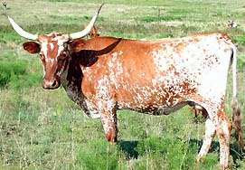 Texas longhorn (from [1]) Credit: U. S. Fish and Wildlife Service USFWS/Elkins, WV Category:Images of Texas